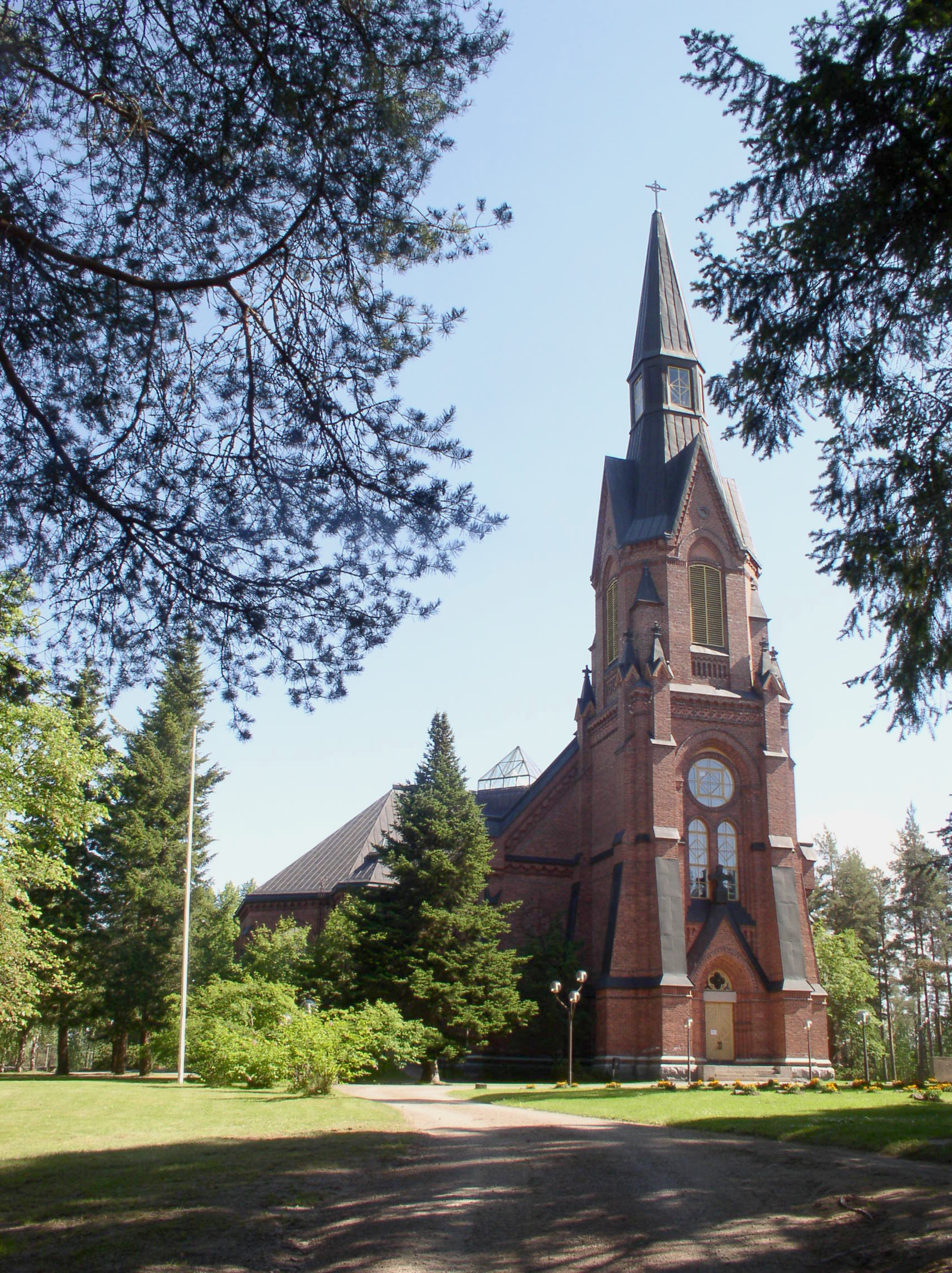 Rantasalmi church in Rantasalmi, Finland. The church was designed by Josef Stenbäck and completed in 1904. The church burned in 1984. The walls were spared, and the church was rebuilt according to the plans by Carl-Johan Slotte, and completed in 1989.